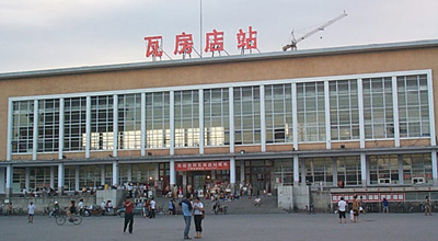 Railway Station, Wafangdian City of Dalian City, Liaoning, China